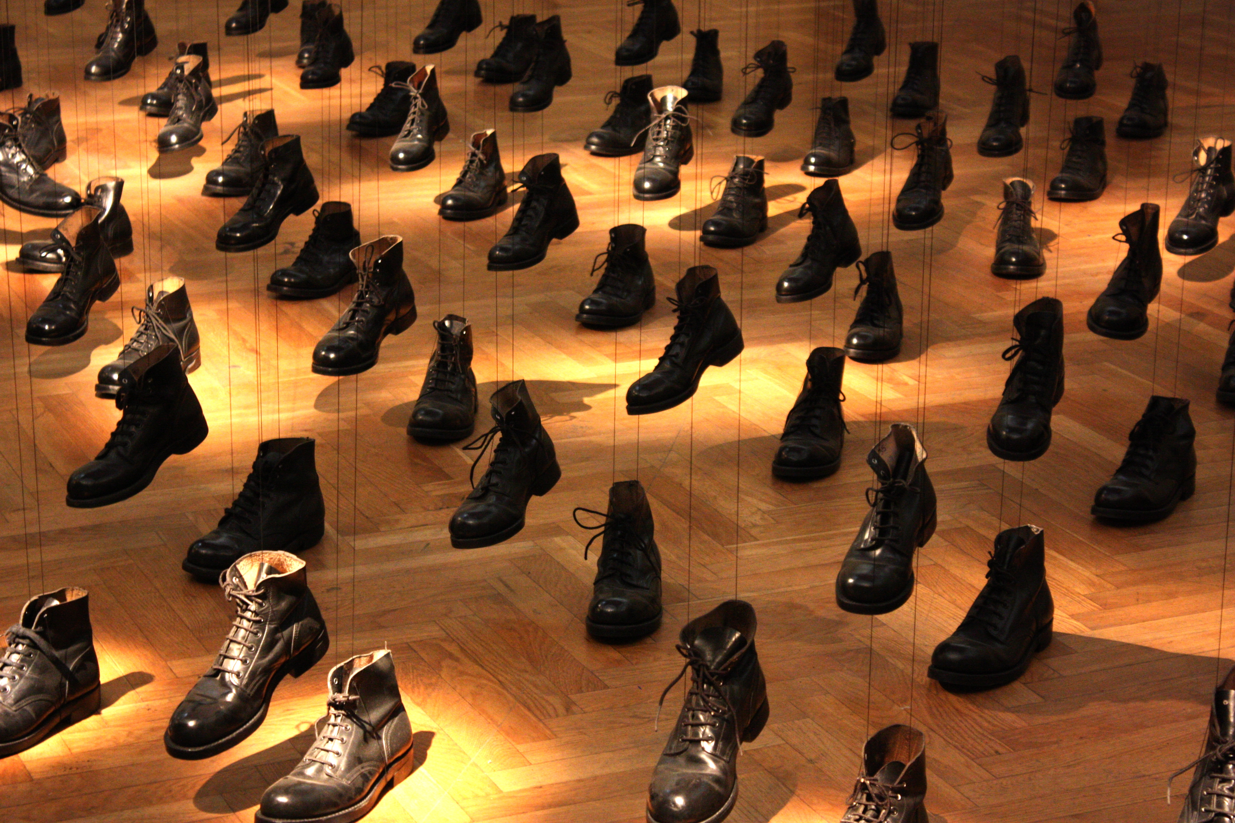 Artwork by Dominique Blain. "The highly polished army boots, hanging from threads, and lined up like a marching army, symbolise here the indoctrination of people, transformed into puppets and manipulated by dark forces". "Missa" by Dominique Blain